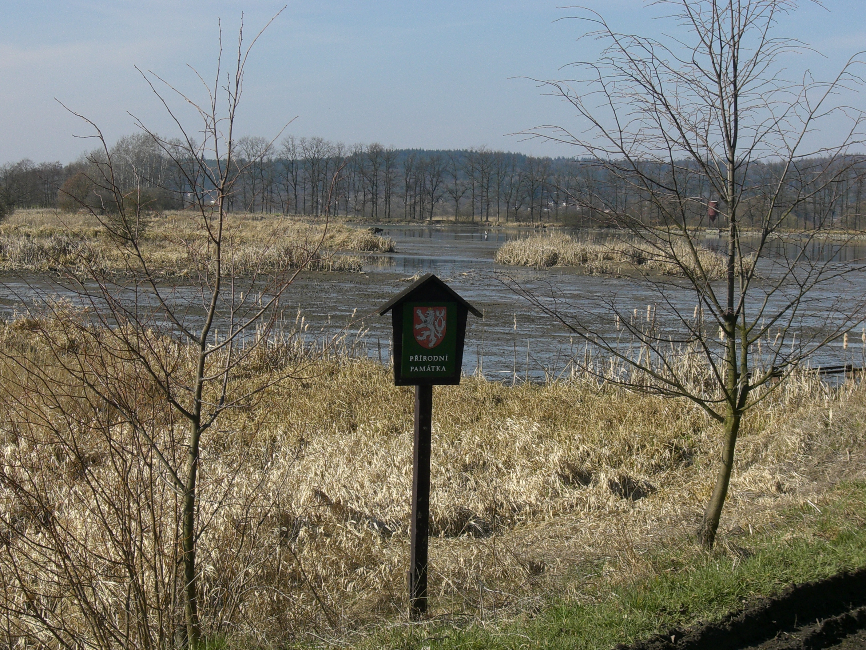 Skalský rybník - nature reservation in Písek district, Czech Republic.